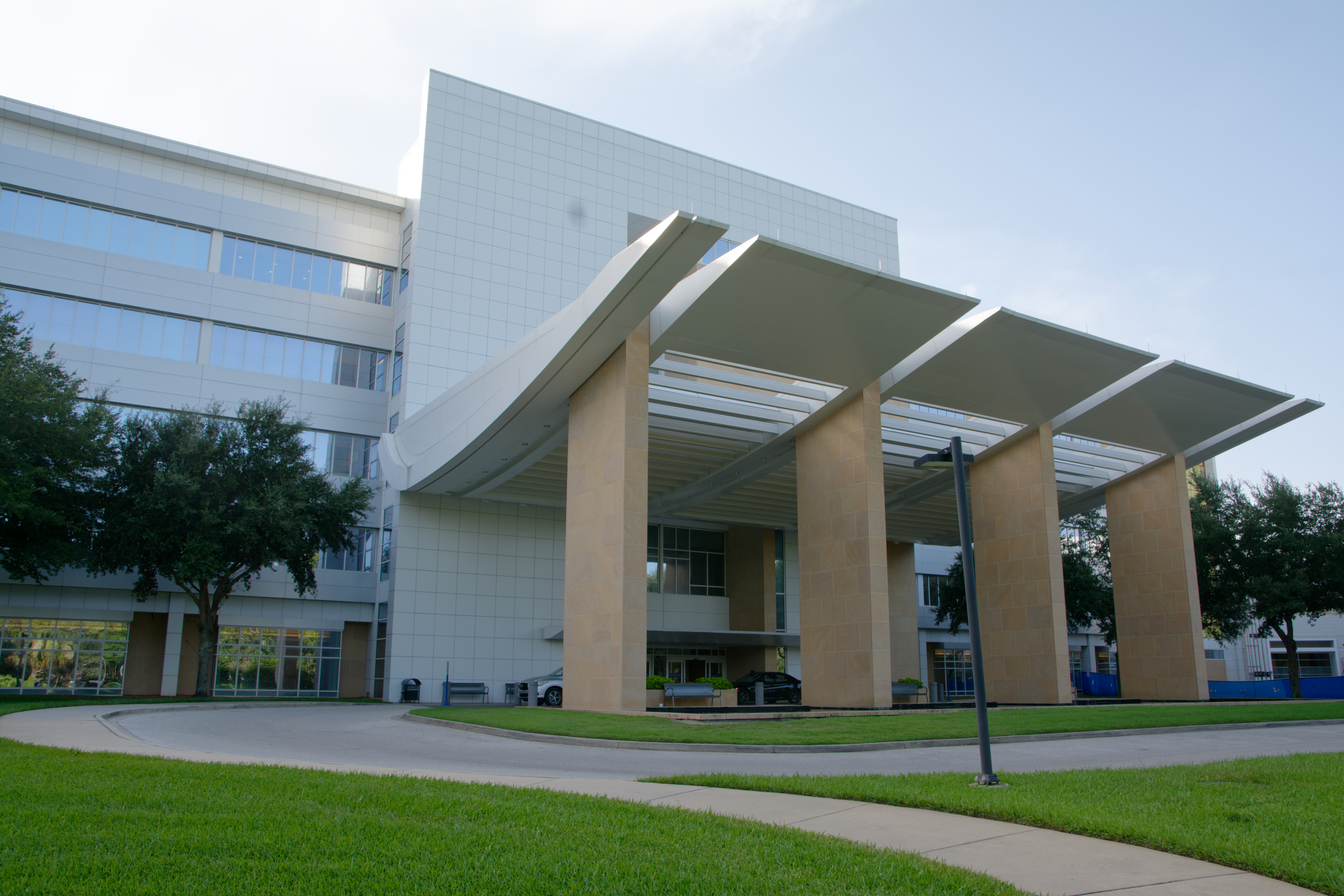 Mayo Clinic, Jacksonville Beach, Florida, US